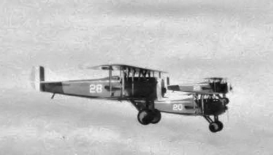 Three SPAD S.XIIIs in formation